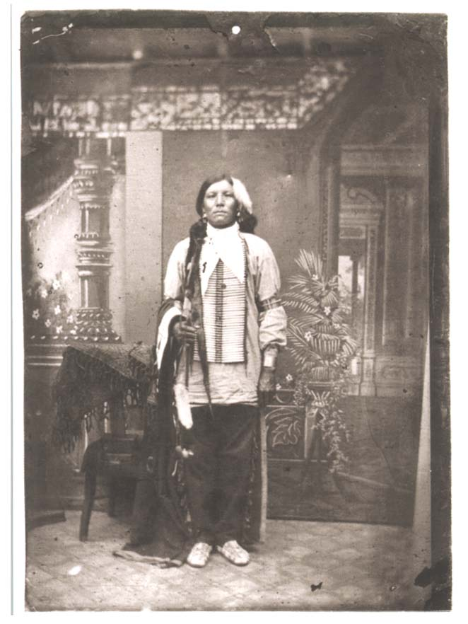 Crazy Horse in 1877 shortly before his death. Authenticity of the photo is disputed